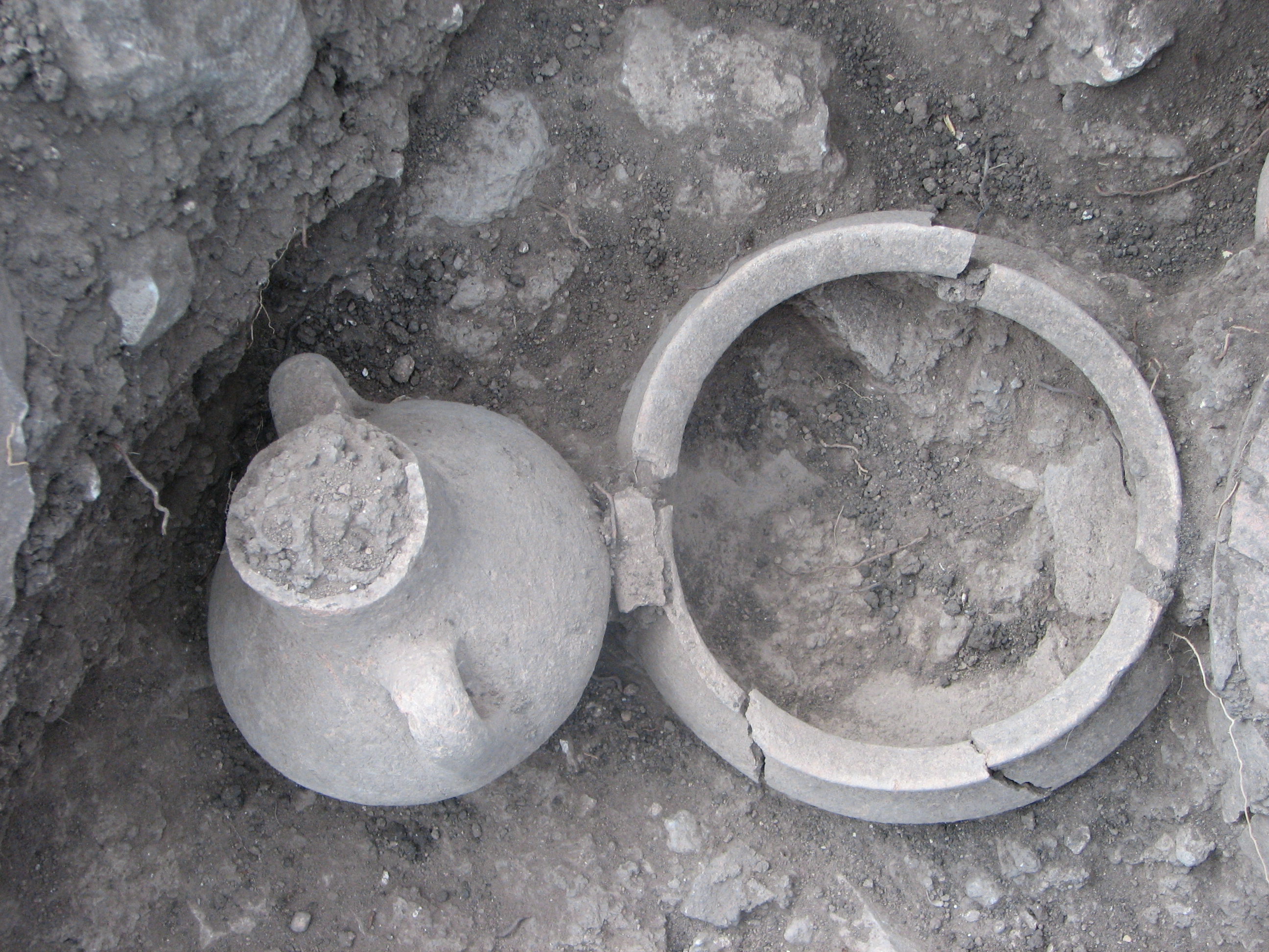 Tell Esur. The mound was excavated by Haarachalog Zertal 2001-2003 and by Shai Bar at Haifa University 2010. Tools from the 13th century BC found in situ.